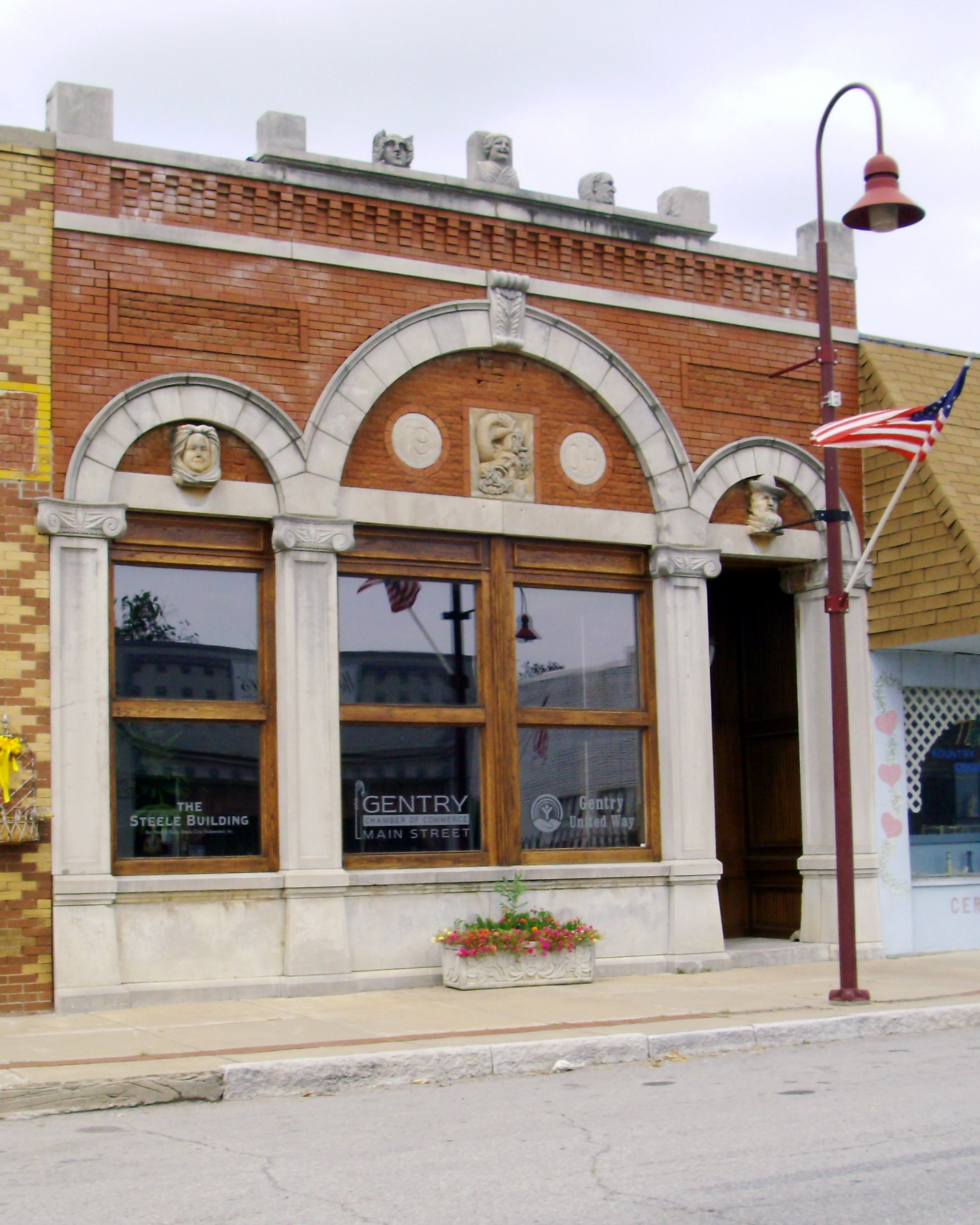 Bank of Gentry located on Main Street in Gentry, Benton County, Arkansas.Built 1904 now listed on National Register of Historic Places.